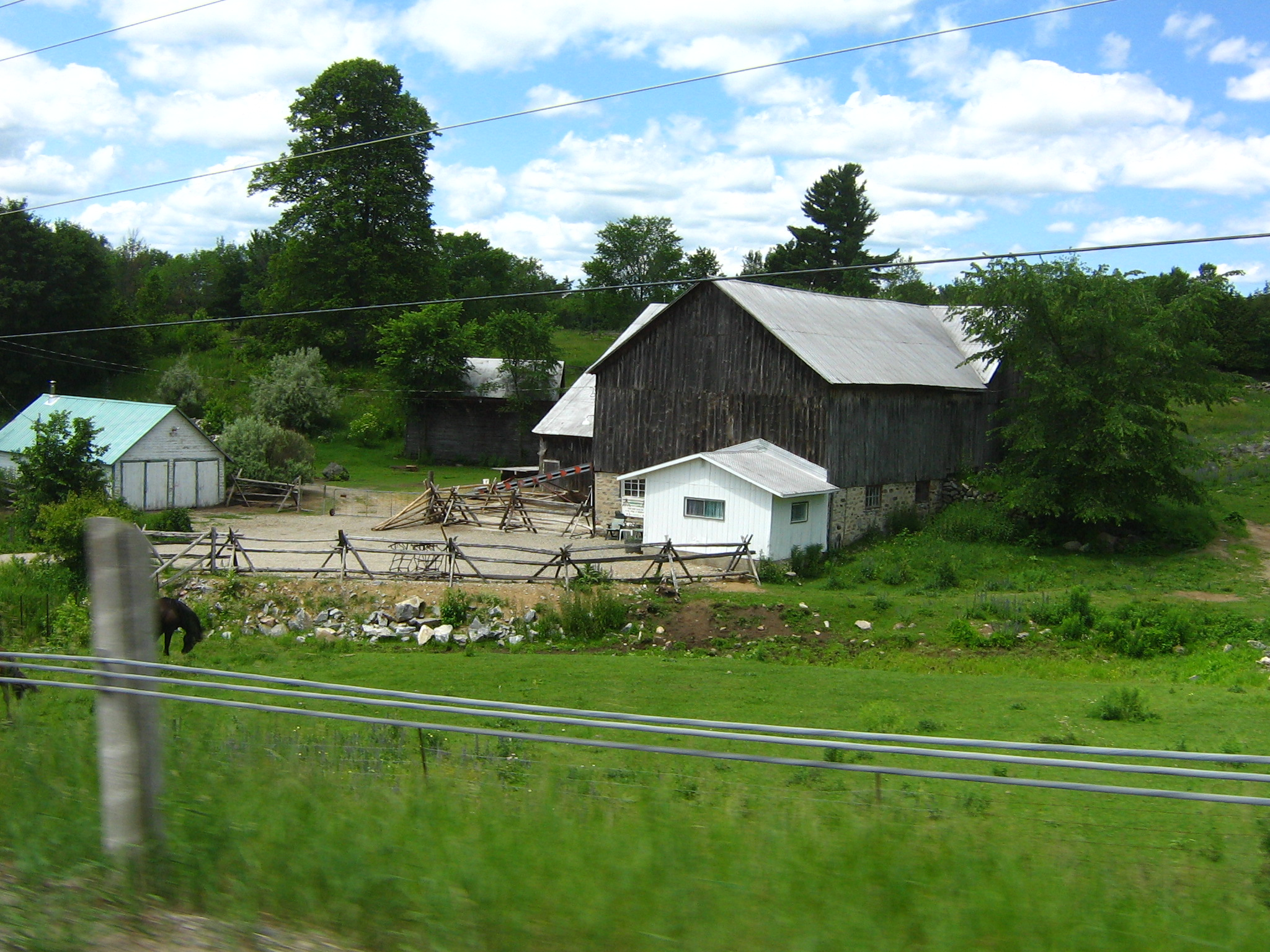 A picture of a farm yard in Lanark County, Canada.